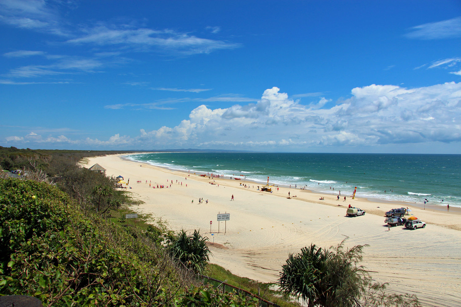 Rd